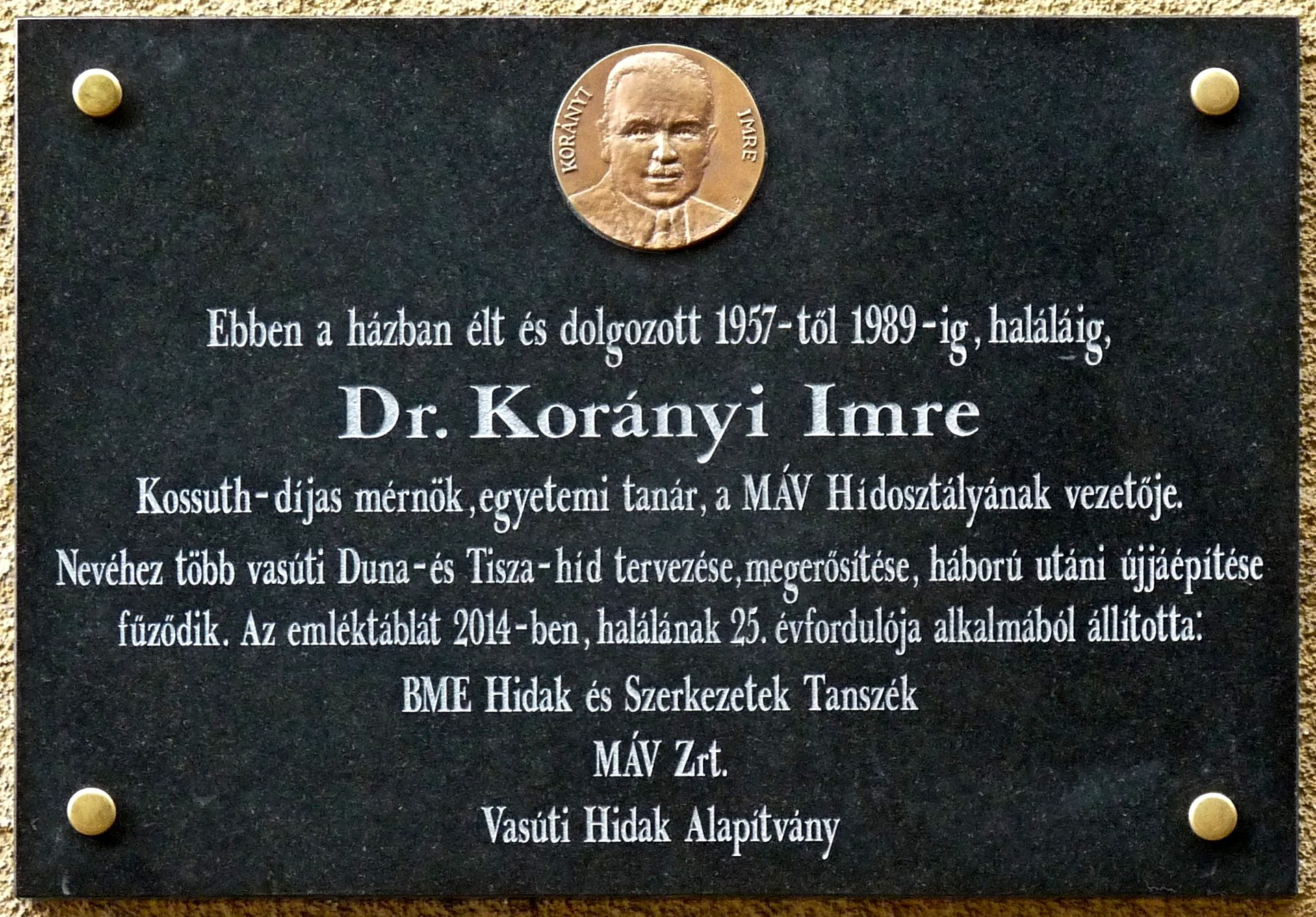 Commemorative plaque to Mr. Imre Korányi (1896-1989) Hungarian construction and structural engineer, designer of several bridges. It has been placed on the wall of his former home, where he lived and worked from 1957 to 1989, and inaugurated August 29, 2014, on the occasion of the 25th anniversary of his death. The author of the bronz relief is Mr. Béla Domonkos. (Budapest, District XIII, Radnóti Miklós Street Nr 38)